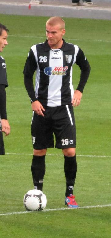 Photo - Slovak footballer Peter Sládek